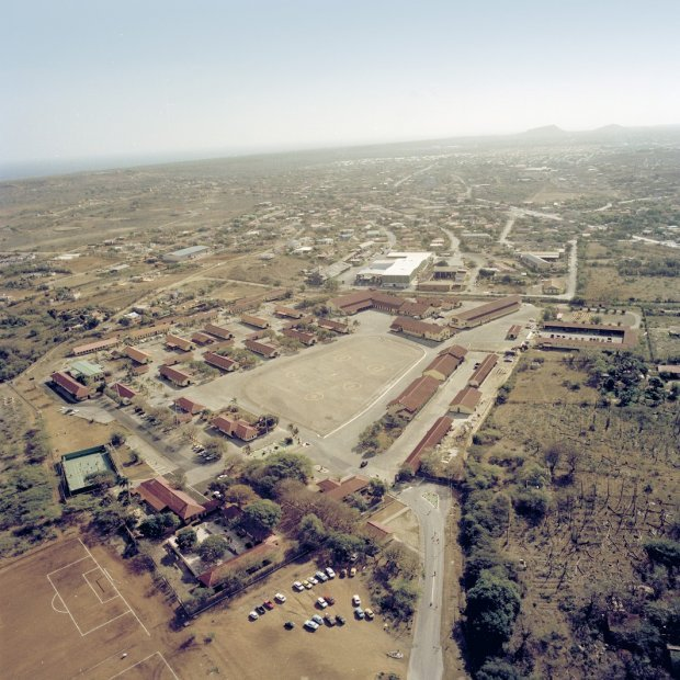 Aerial photograph of the Marines Baracks Suffisant Baracks of the Royal Dutch Marineson Curaçao, Netherlands Antilles